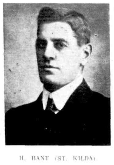 Photograph of Horrie Bant featured in Punch Newspaper in 1907